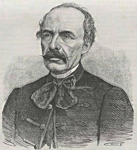 Portrait of József Gaal